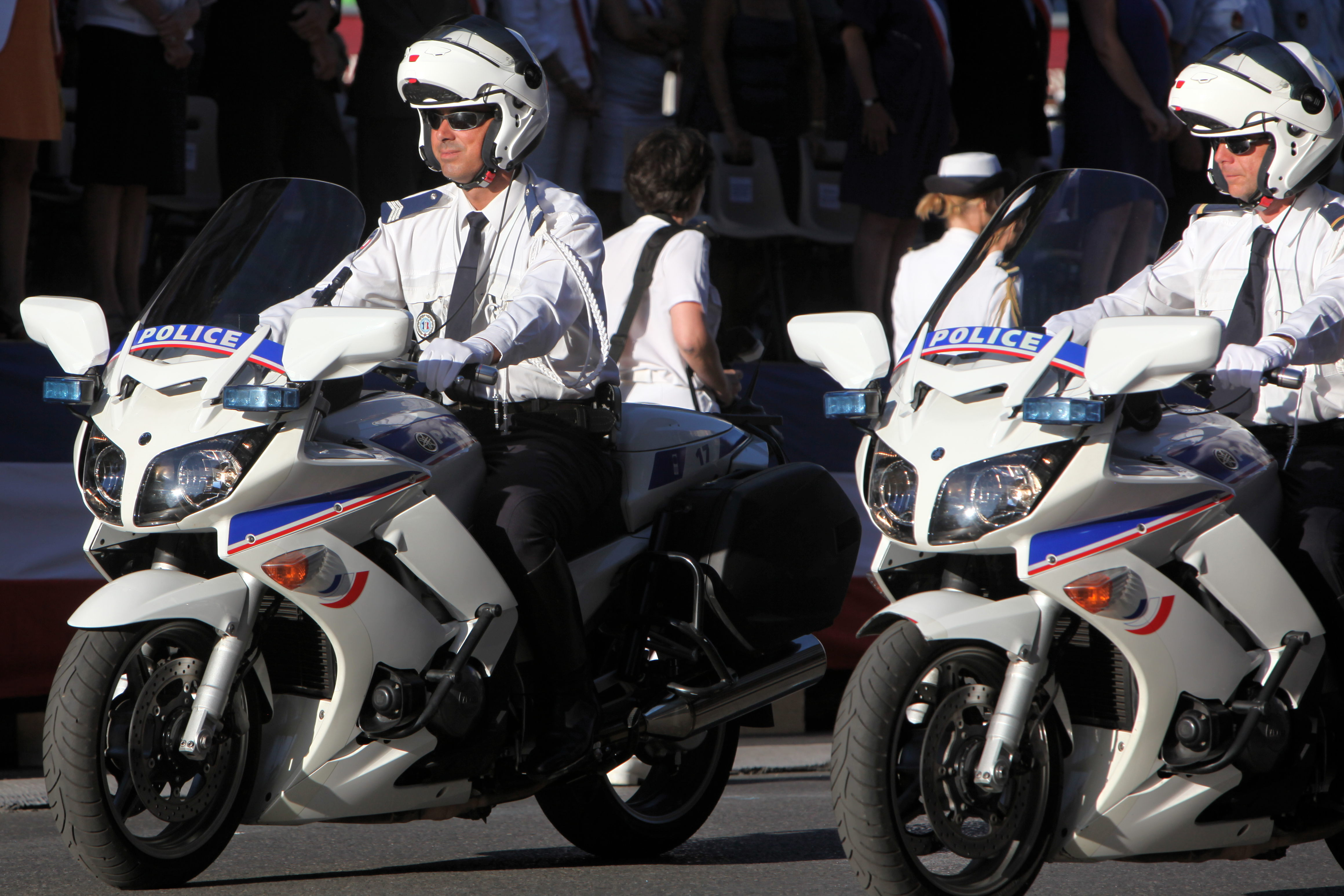 Members of the Police nationale during the parade of the 14th of July 2011 in Toulon